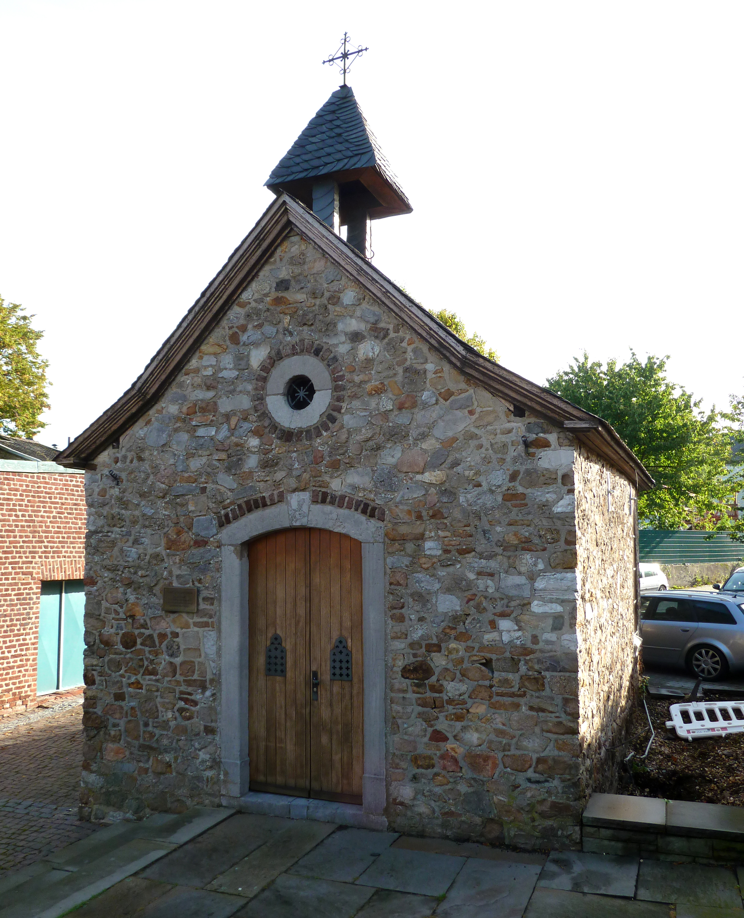 Chapel under protection of historic buildings and monuments in Aachen-Eilendorf, Germany The plate left of the entrance says: St. Apollomia chapel Built in 1774 The only left chapel of the formerly five chapels in Eilendorf monument, protection of historic buildings, construction, architecture, sacred building, buildings